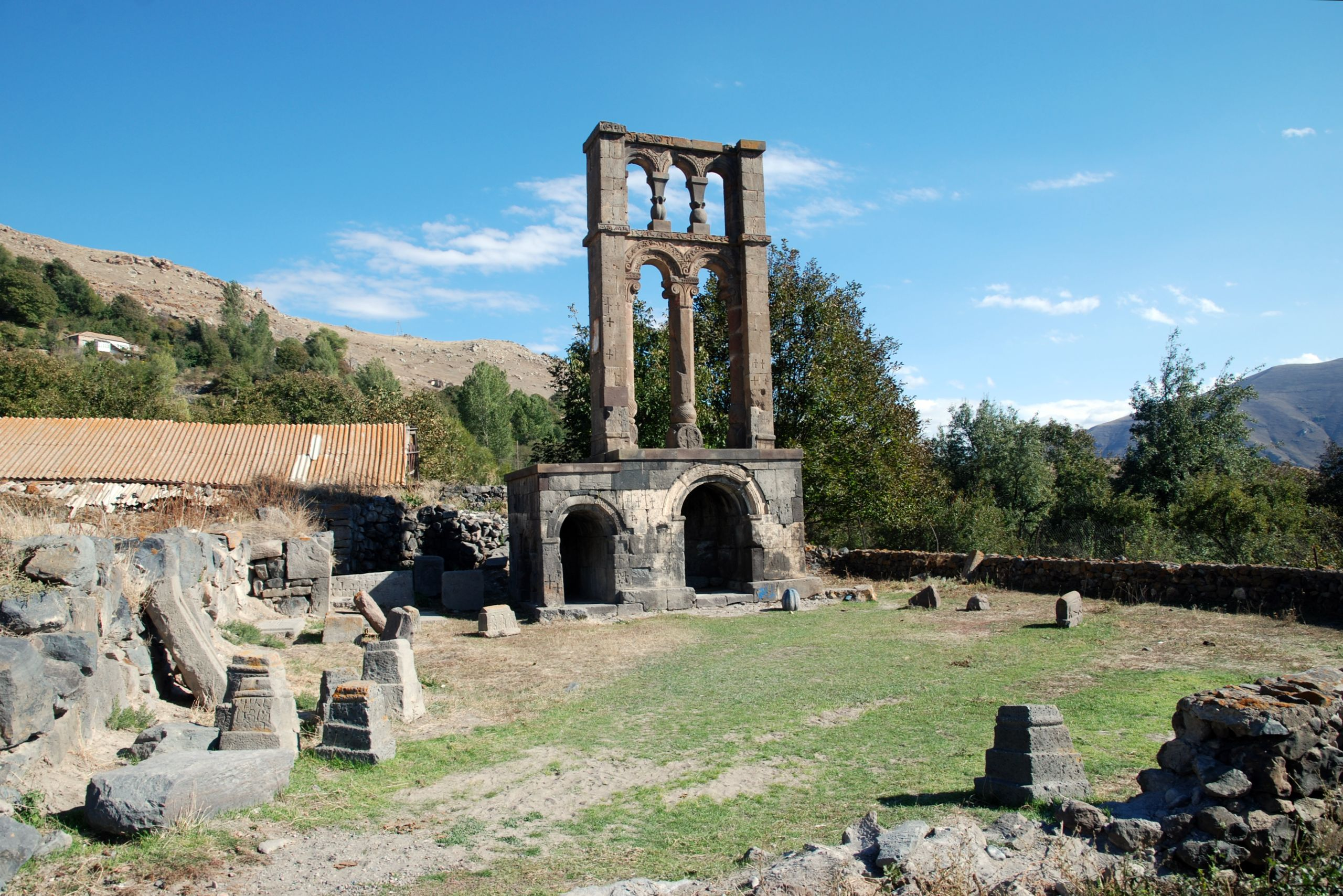 Aghitu near Sissian, monument of 6./7. ct